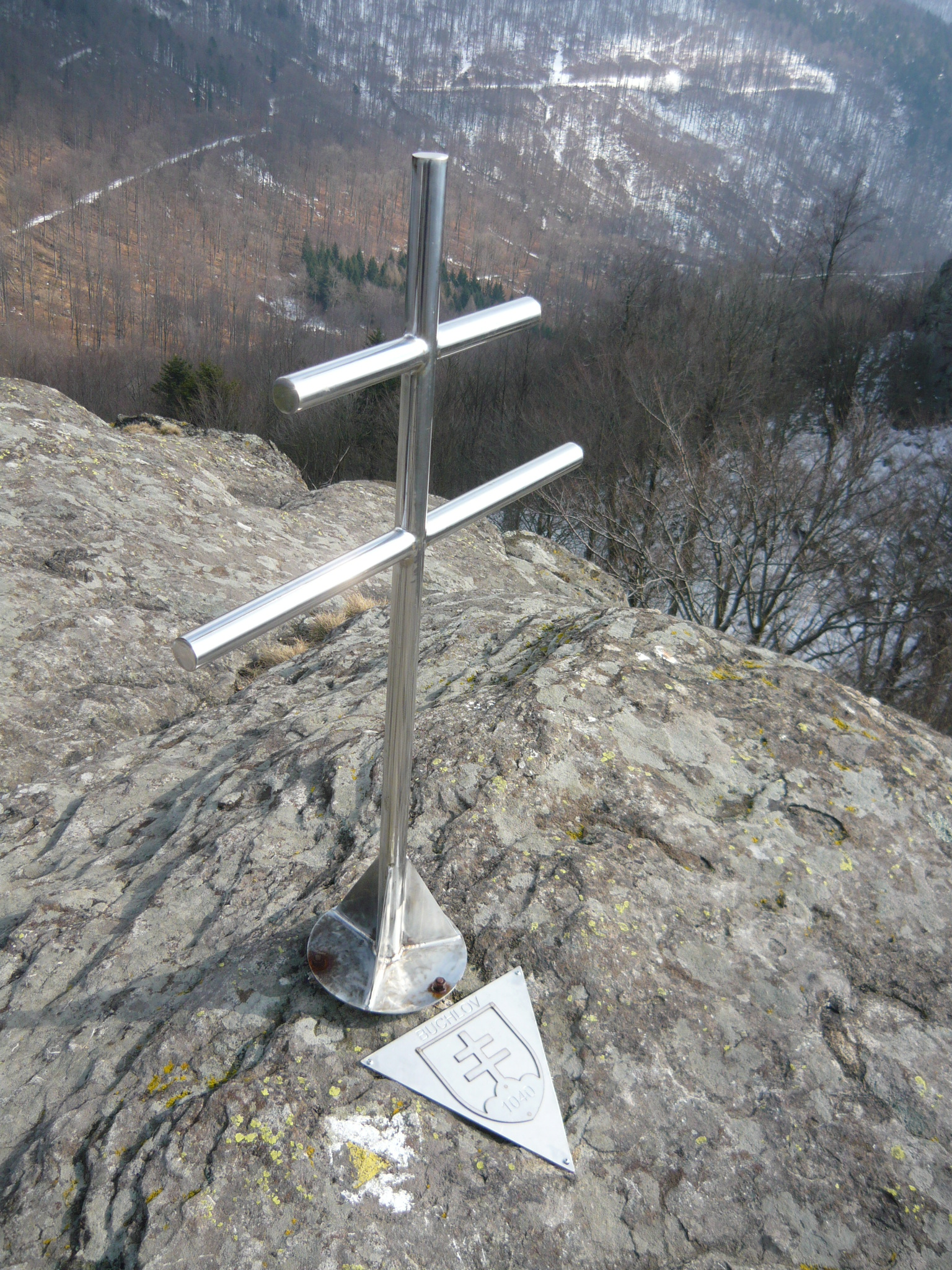 Summit cross on Mount Buchlov (Vtáčnik mountains, Slovakia).